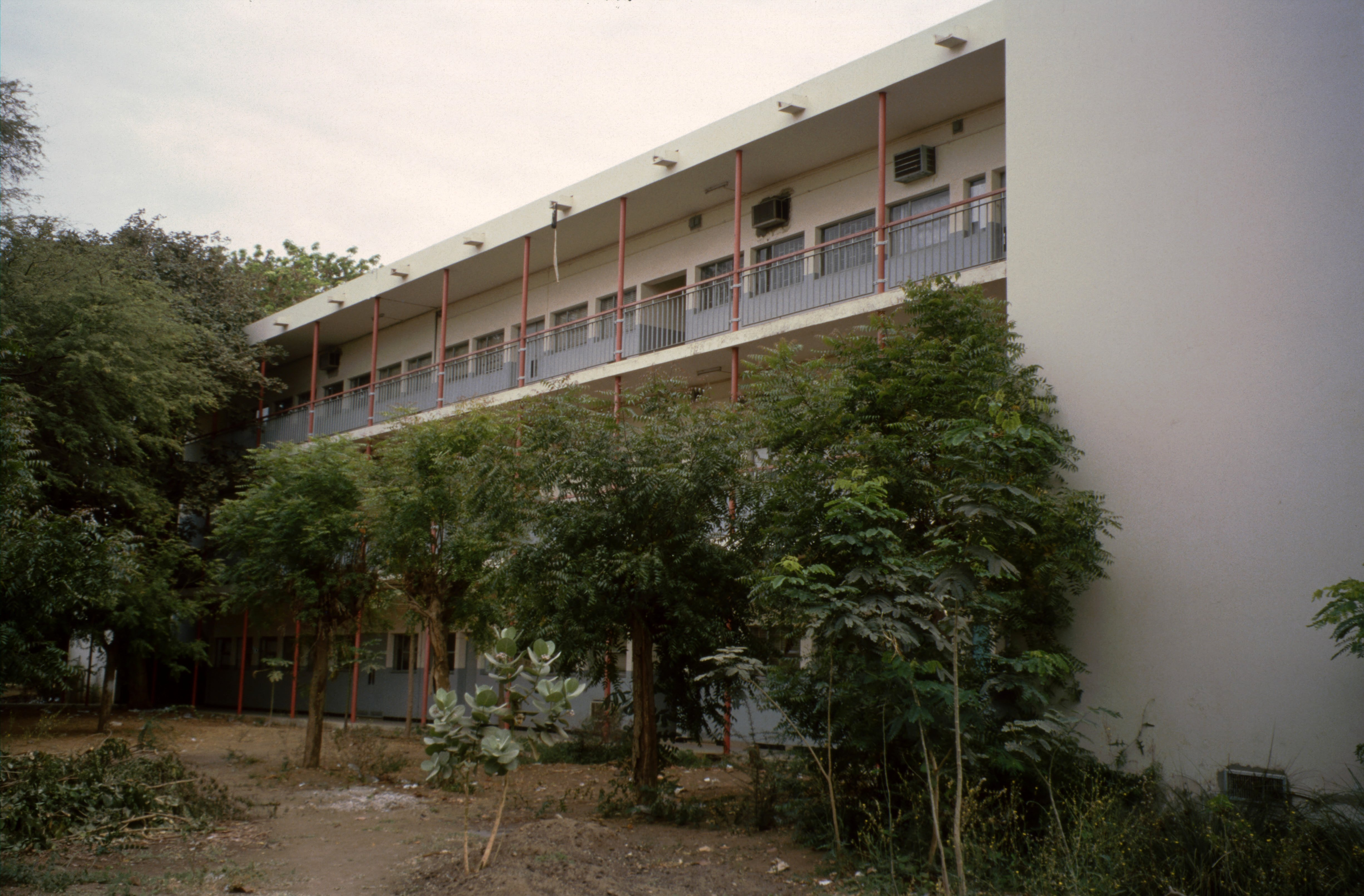 University of Dakar - University Library - 1982 (scanné d'après diapositive)